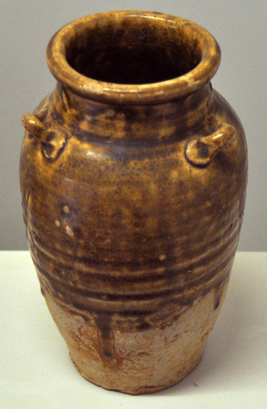 13-14c. Brown glazed ceramic in room6 “Champa Culture (2-17c.)